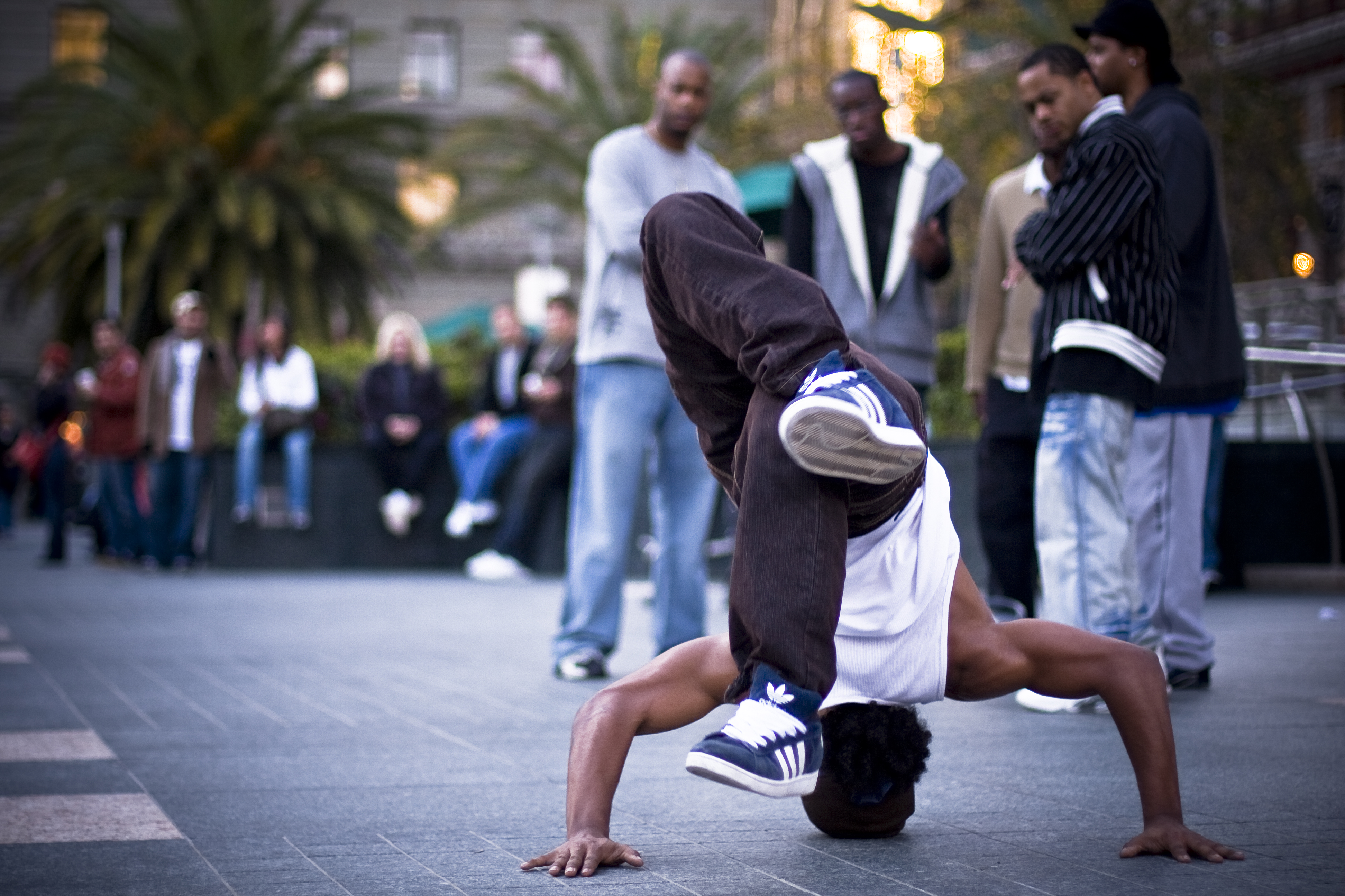 A b-boy performing a head-hollowback in Union Square.